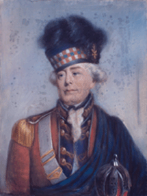 Major-General John Small (1726-1796)